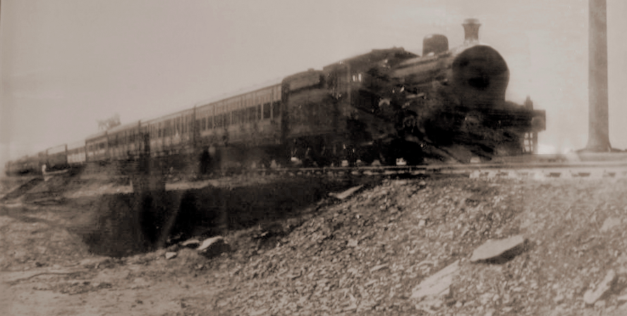 A Thirsty Special Train. First Train to Jammu from Sailkot. 19th Cent. A.D. License: cc-by-sa-3.0 (at source)